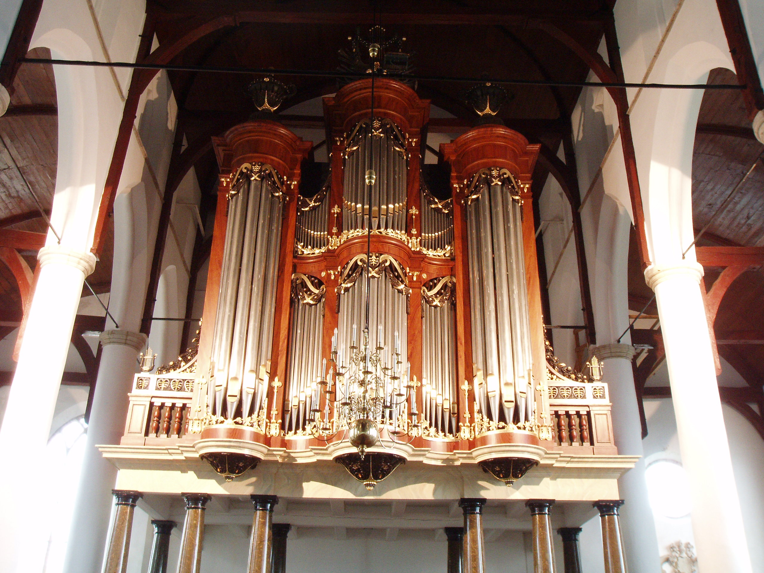 Van Dam 1842